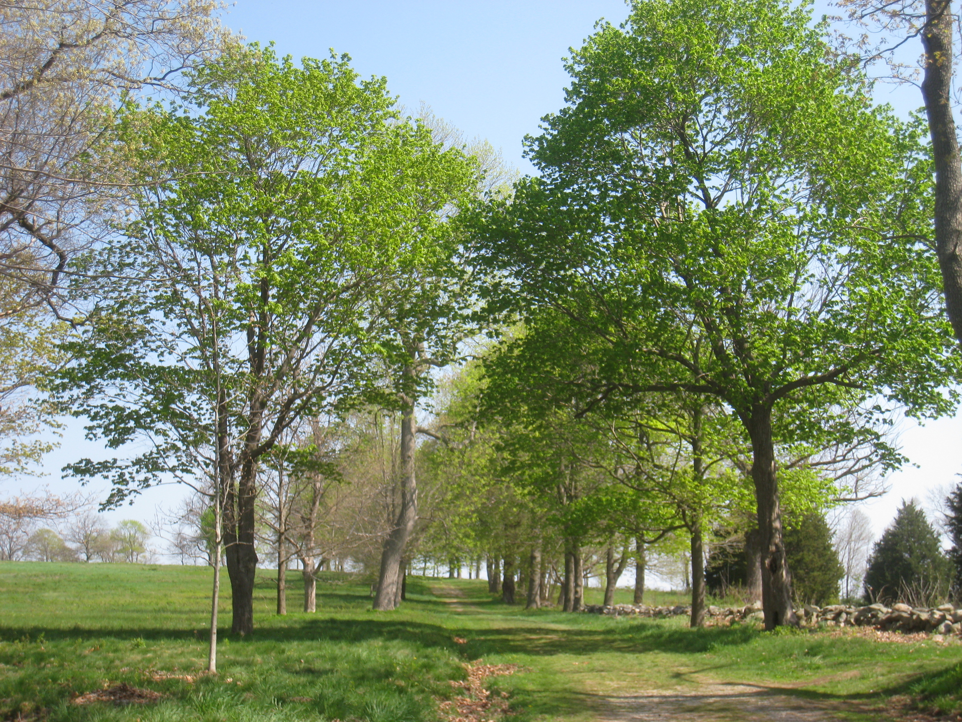 World's End, Hingham, Massachusetts, USA. Landscaped by Frederick Law Olmsted; now maintained by The Trustees of Reservations.